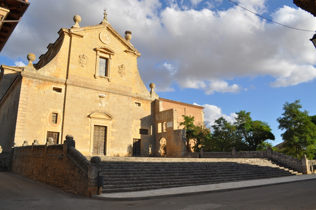 Front of St. Luis Colegiata, Villagarcía de Campos, Valladolid, Spain. It is a great sample of herrerian arqchitectural style, and had a big influence in later Contrarreforma constructions, being a crear example of jesuitican style. Nowadays it can be visited, as the museum enclosed. The Relicarium in it is considered a main example of spanish sculpture.